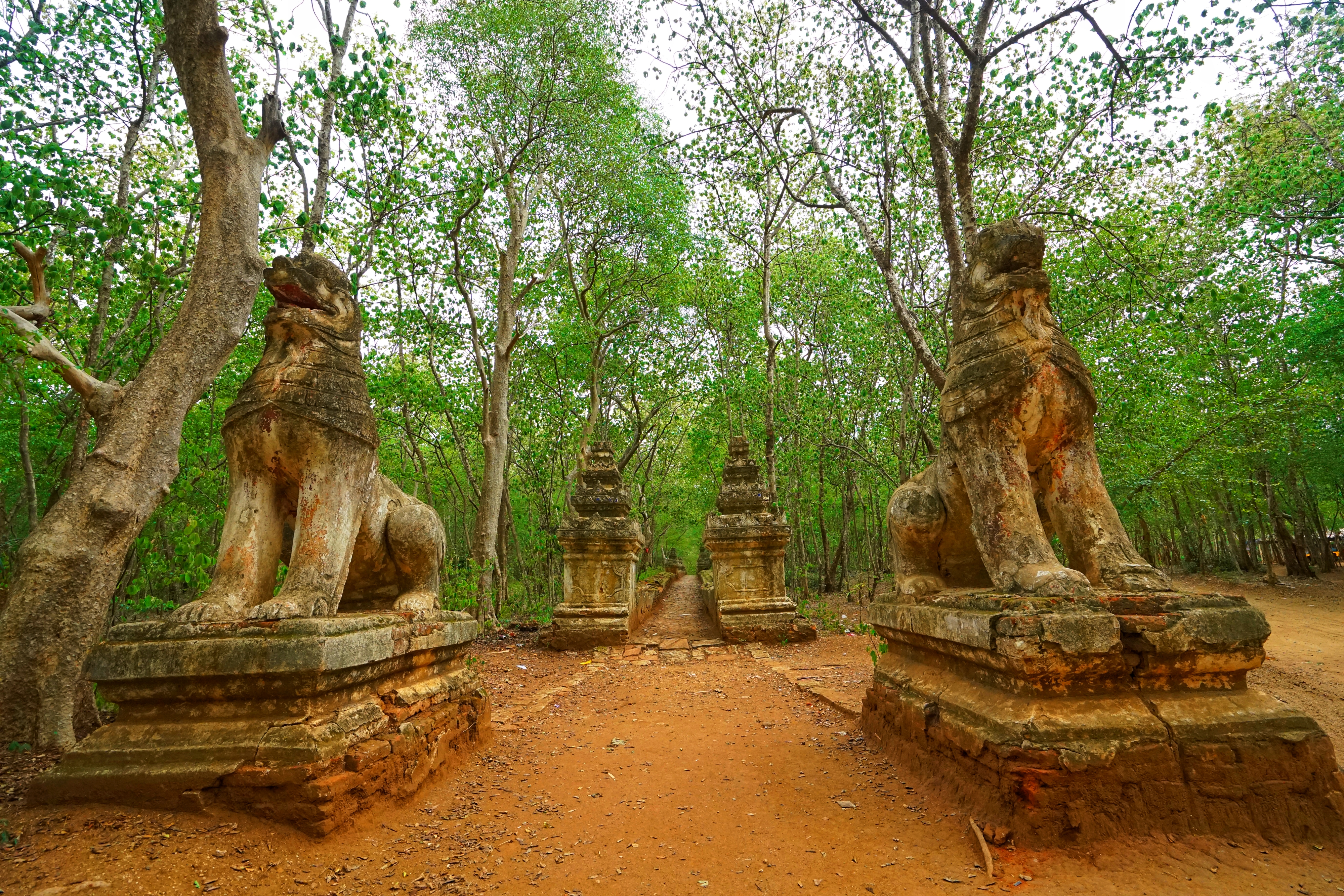 Shein Makkar Taw Ya monastery and wildlife sanctuary are popular attractions in the Sagaing Region.